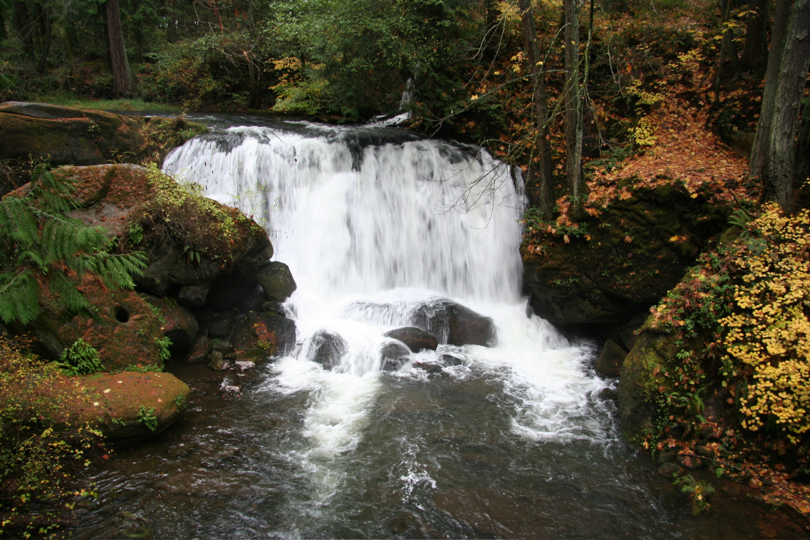 Upper Falls in Whatcom Falls Park, Bellingham. Taken from atop the stone bridge in early November.